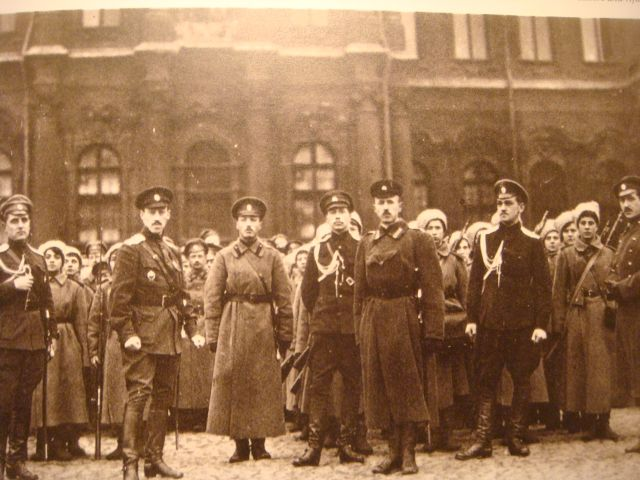 Women's death-corp (Women's Battalion) ready to defend Winter Palace in St. Petersburg, Russia, against bolshevik's mutiny.